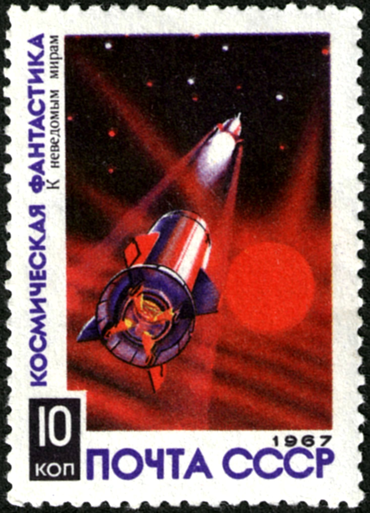 Science fiction.Ascent to Ortbit (Towards Unknown Worlds) by Andrey Sokolov (1931–2007). Oil, cardboard. 1966[1].The stamp of the Soviet Union, 10 kopecks, 20 October 1967, CPA Catalogue No 3547, Michel No 3405, Scott No 3384, Yvert No 3284. Coated paper. Offset printing. Perforation: comb 12×12½. Size of the stamp: 32×40 mm. Print run: 4,000,000.